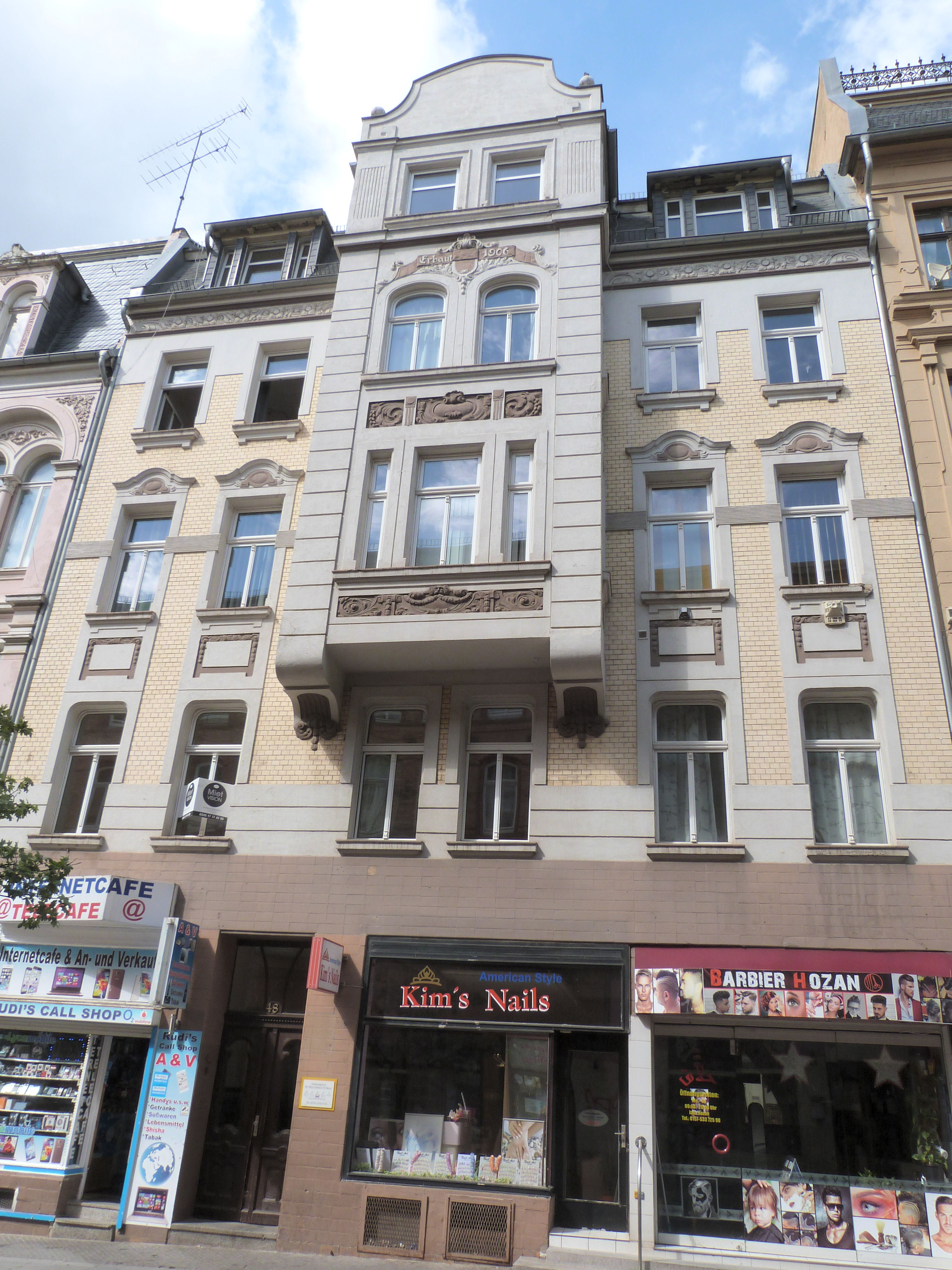 House No. 48-49, Leipziger Strasse in Halle (Saale)